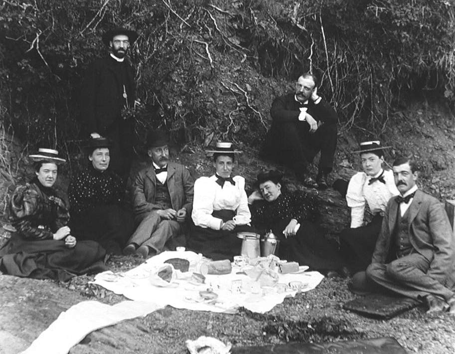 Washington elite citizens have a picnic near the battlefield of Bull Run in 1861